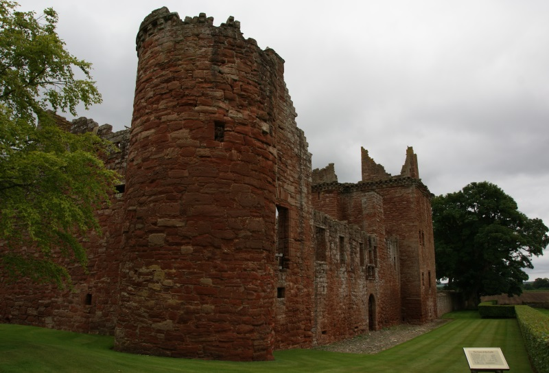 Edzell Castle, Angus, Scotland. View from northwest.